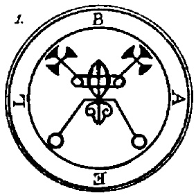 The seal of Baal